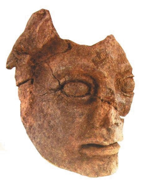 IV-III secolo a.C.